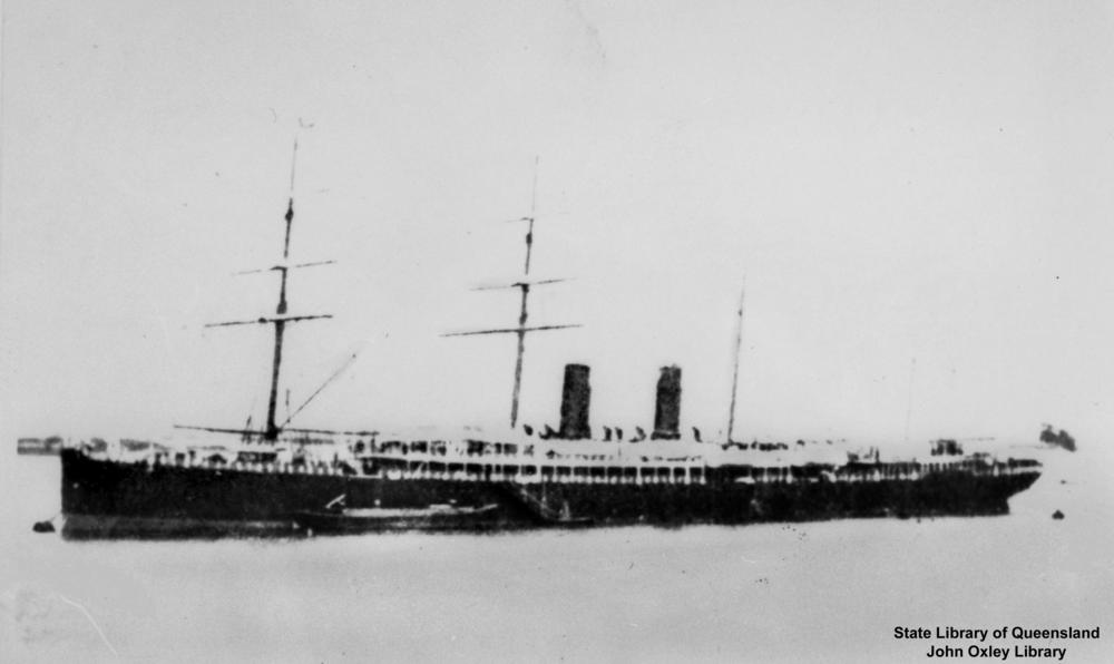 5,524 GRT passenger steamship Austral, built in 1881 by John Elder & Co of Govan, Glasgow for the Orient SN Co